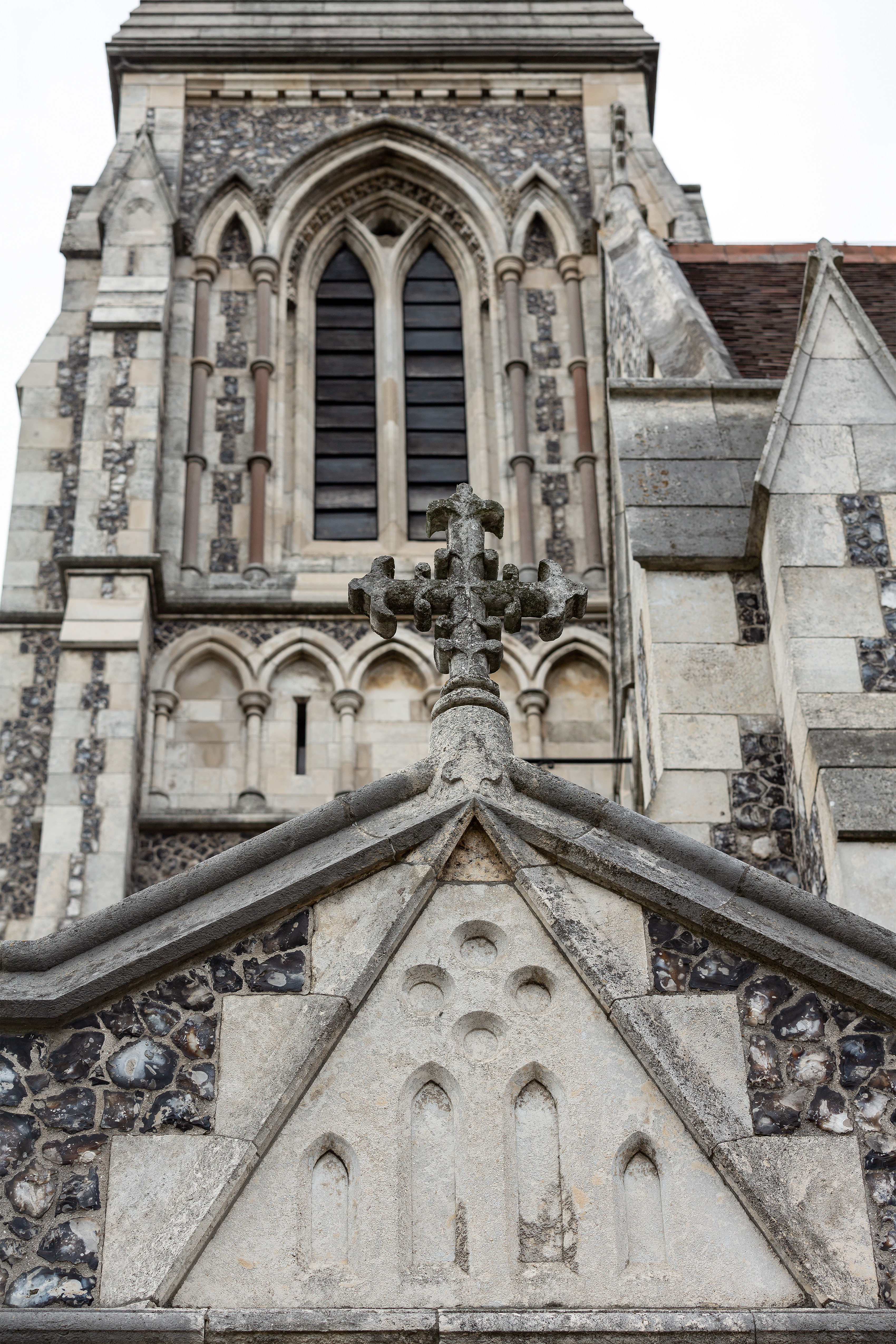 St. Alban's Church, Copenhagen, Denmark.